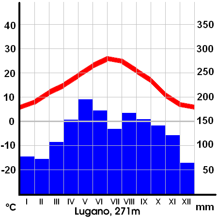 Climate diagram for Lugano, Switzerland. Max temperature, average rainfall in mm. Data from Climatedata.eu software from Klimagramm